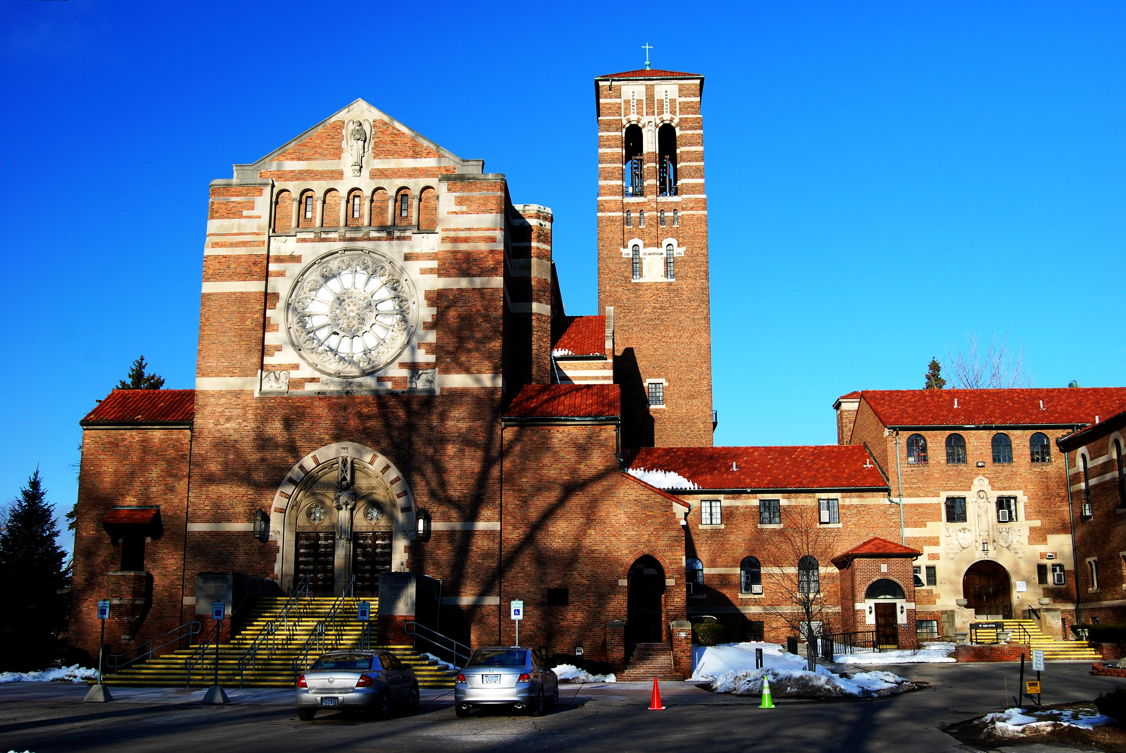 Southfield, Word of Faith, Chapel Entrance